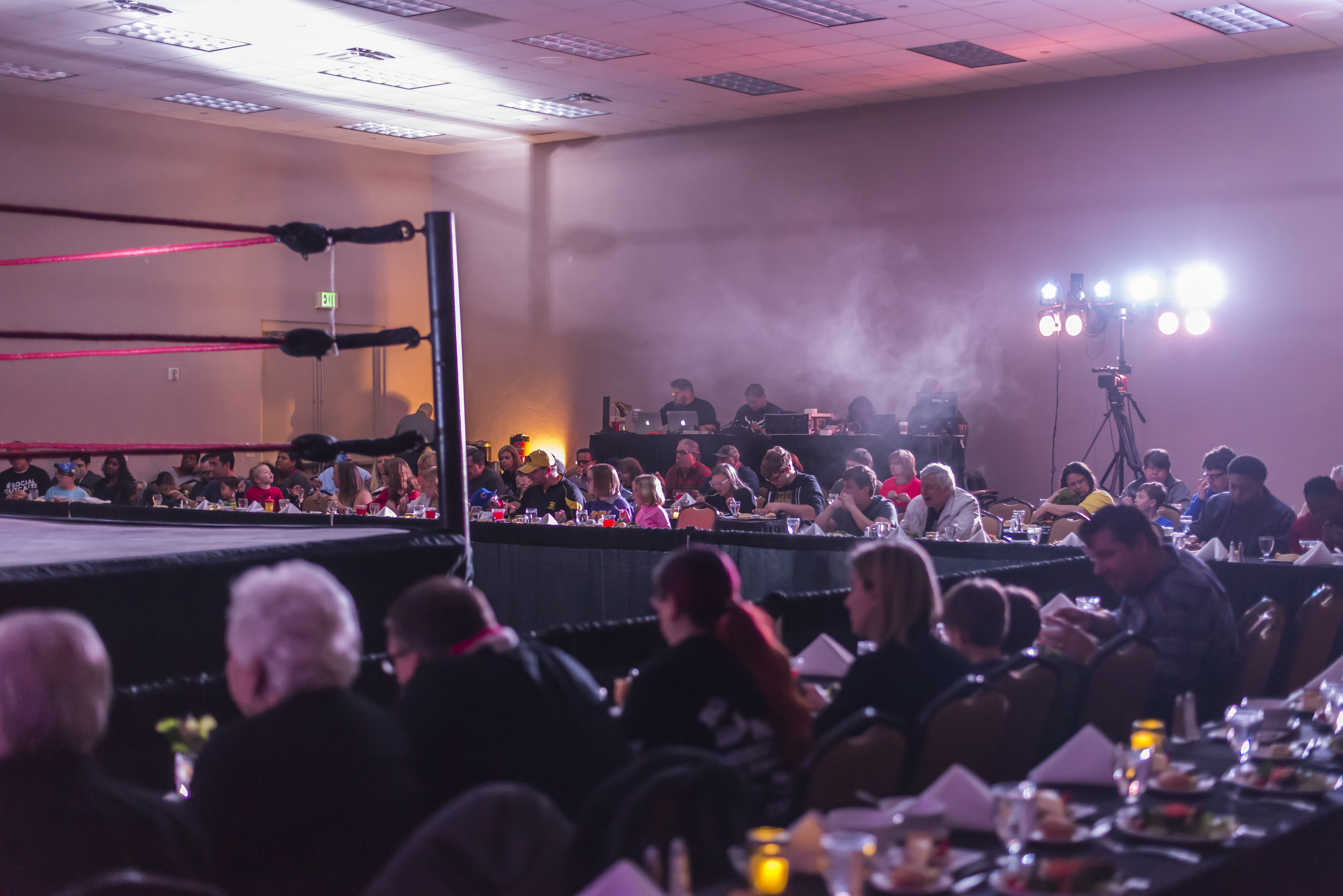 A Dining Adventure like no other!